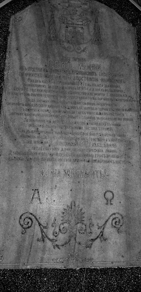 Tomb of bishop Roberto Menini